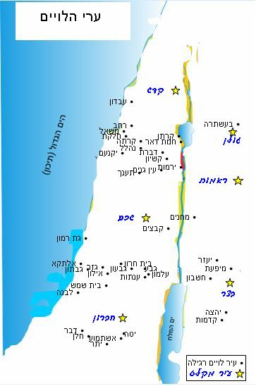 Map of "Cities of Levites" (according "Joshua" book, without Dimna and Ayin, because I didn't find their places).